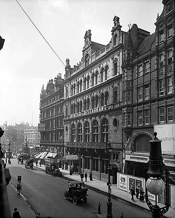 Exterior of Cafe Monico with a view towards Piccadilly Circus from the north-east. This building was erected in 1888-9 and was designed by architects Christopher and White for Giacomo and Battista Monico who also had premises at 46 Regent Street. The photograph, taken for A C Hutchins, shows wartime propaganda posters on hoardings next door to the restaurant.